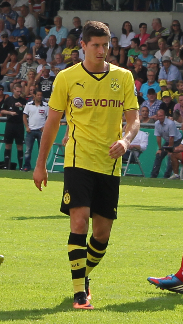 Robert Lewandowski during a match in Wilhelmshaven 2013